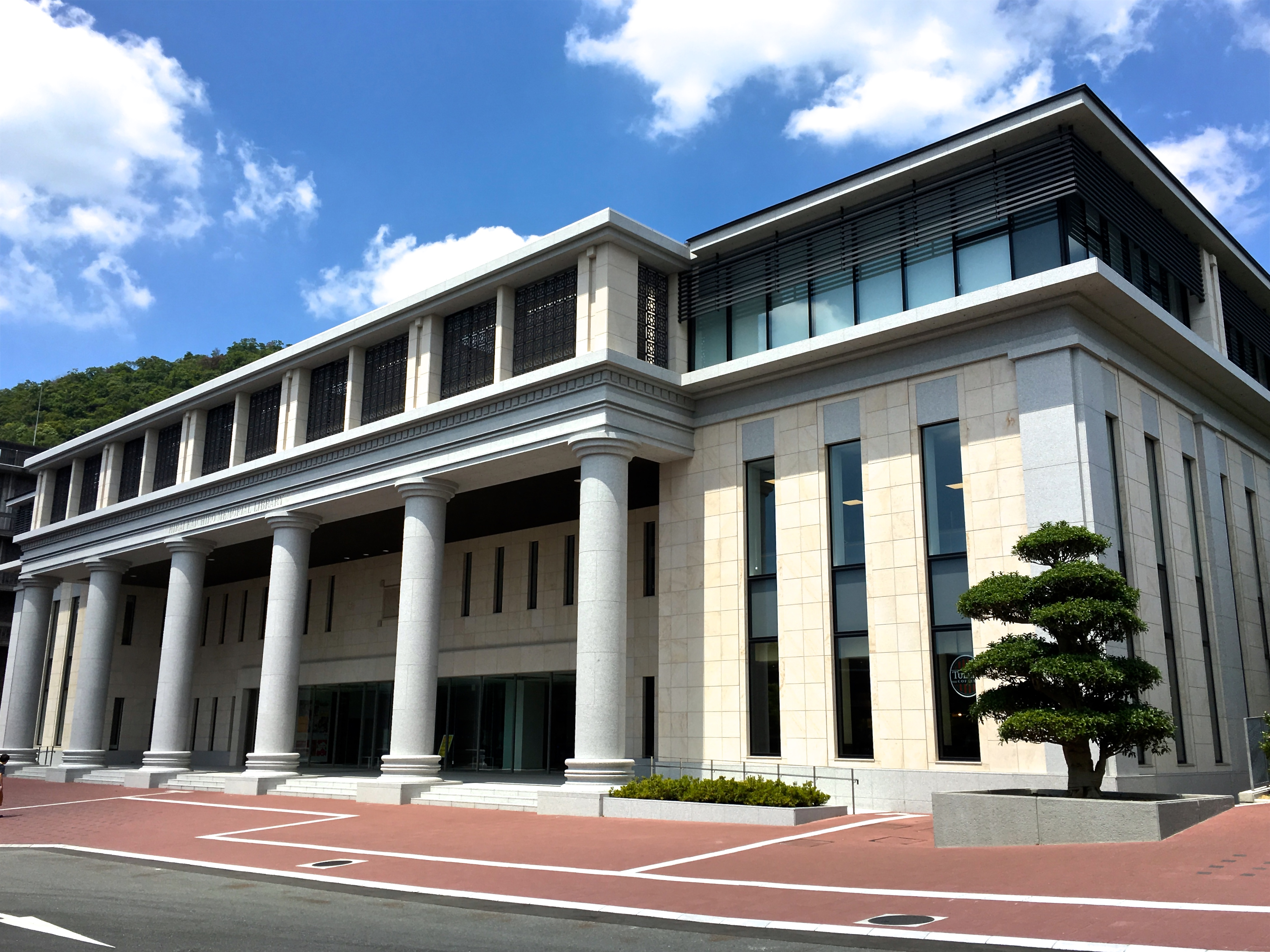 Hirai Kaichiro Memorial Library at Kinugasa Campus of Ritsumeikan University in Kyoto, Japan